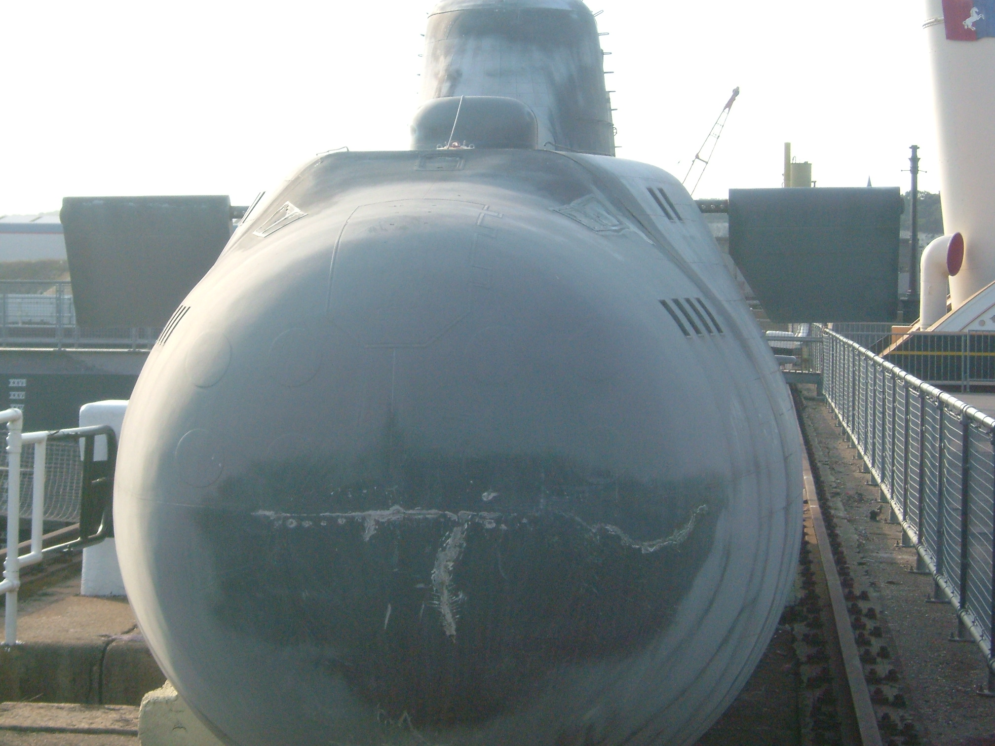 Chatham Dockyard, Kent,England has the finest collection of 18th and 19th century naval dockyard buildings many of which are scheduled as ancient monuments. Remote Control Model of Russian Victor Class Submarine used in filming of 1999 James Bond film The World Is Not Enough. - Google Maps - Google Earth